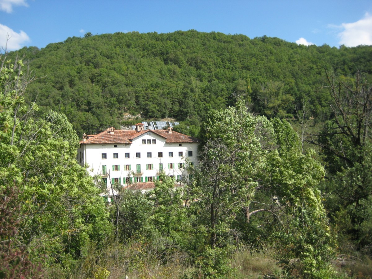 Sanilles